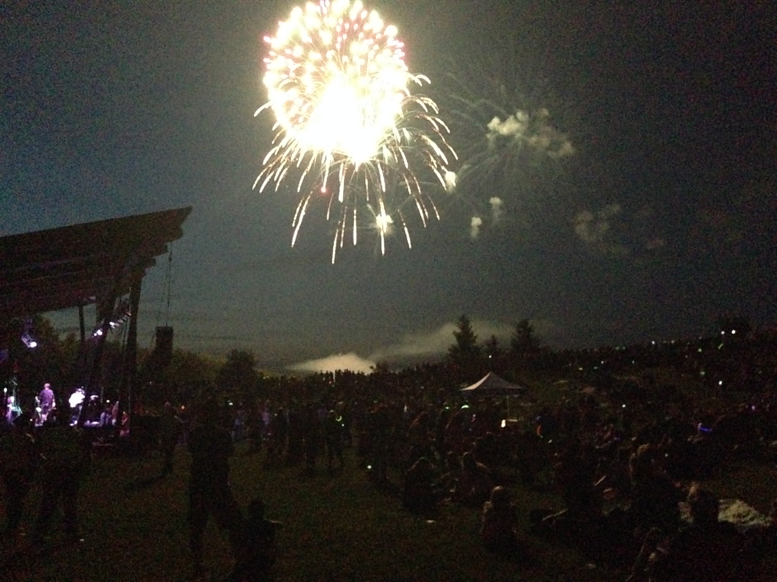 4th of July 2015 in Acton